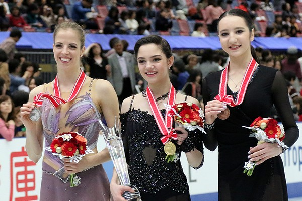 Photos – NHK Trophy 2017 – Ladies (Medalists)